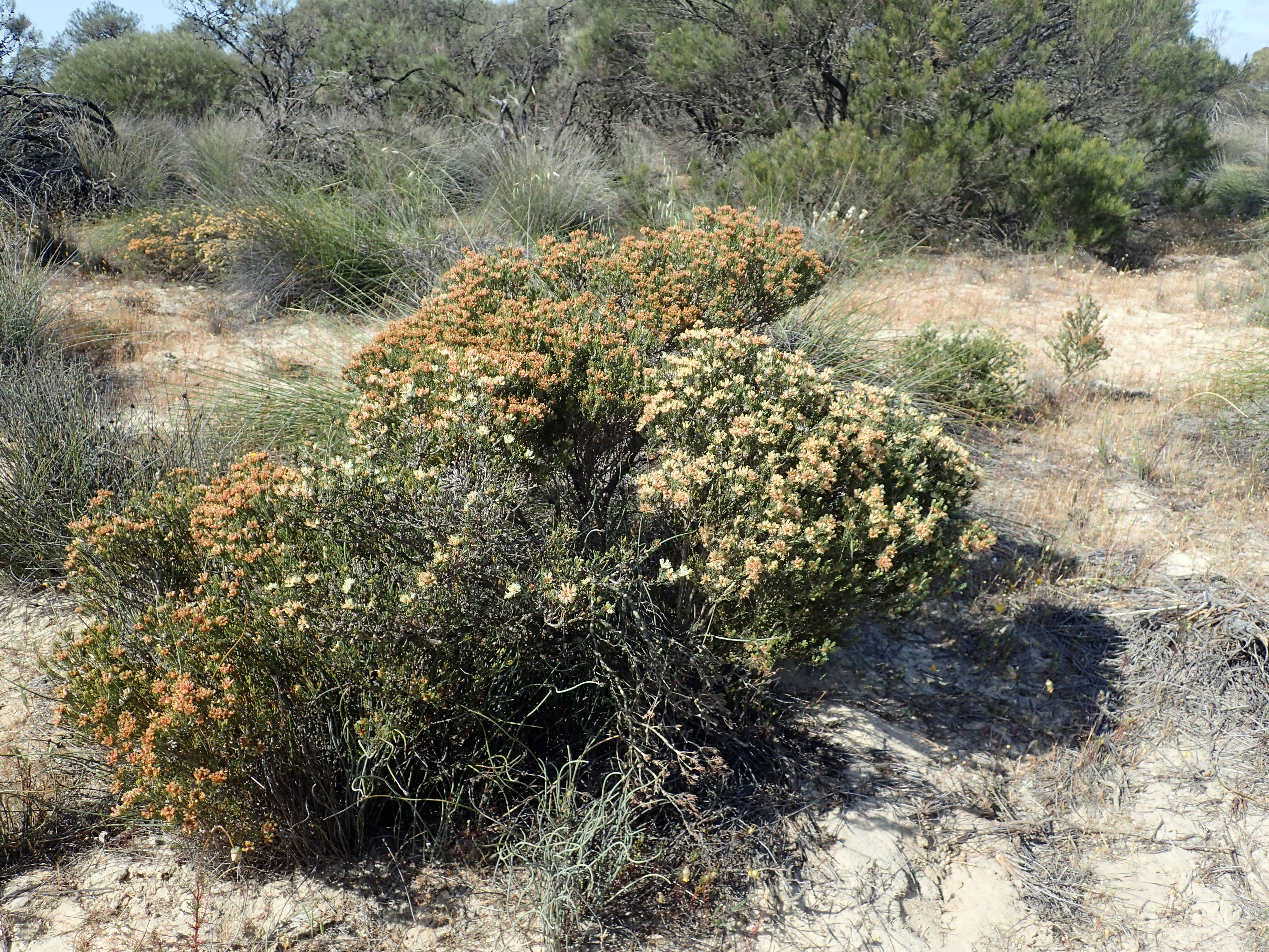 Melaleuca dichroma in Gunyidi Nature Reserve (western edge)